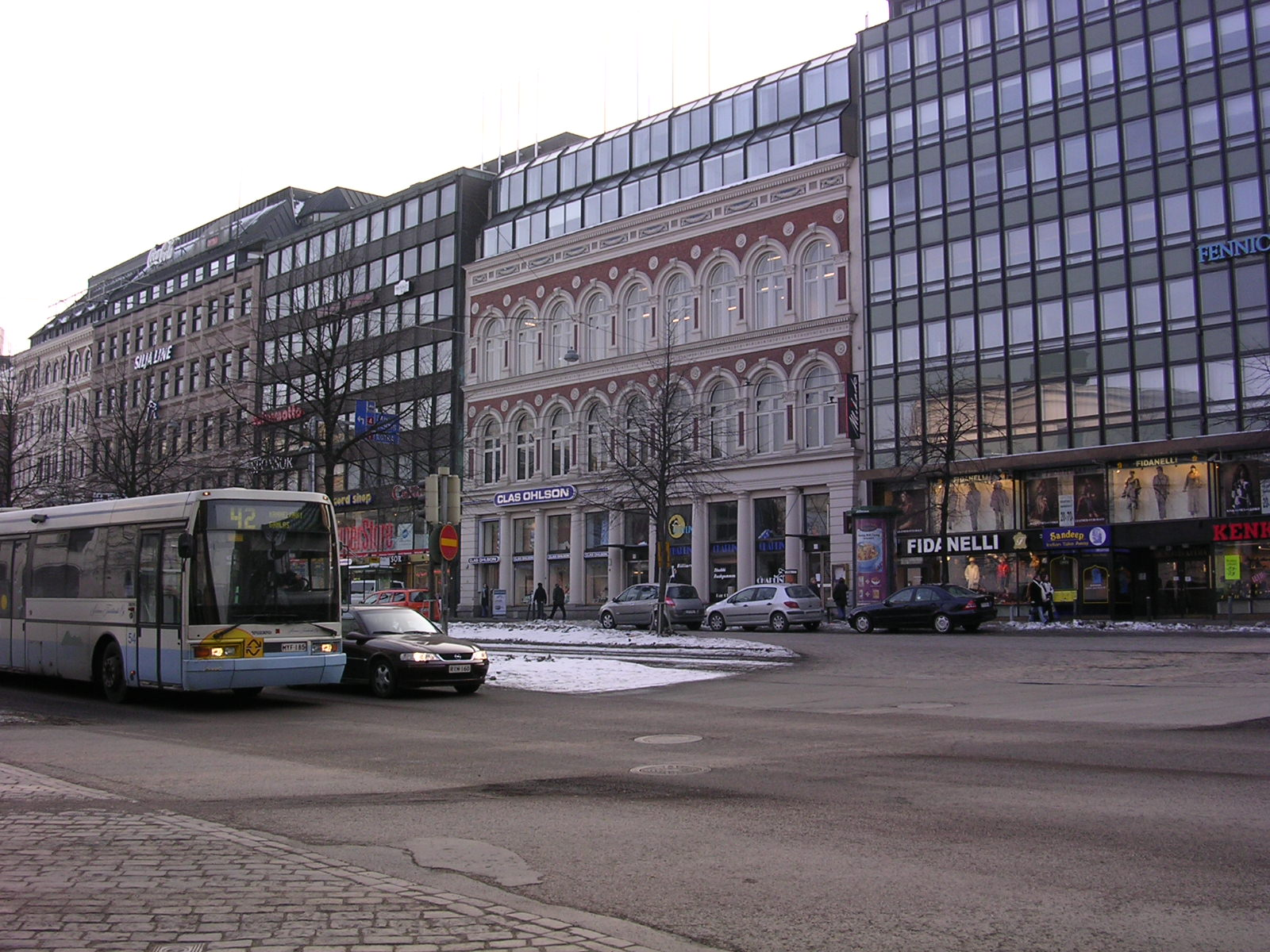 Mannerheimintie 6, Helsinki, Finland (in the middle). Designed by F. A. Sjöström, completed in 1870.